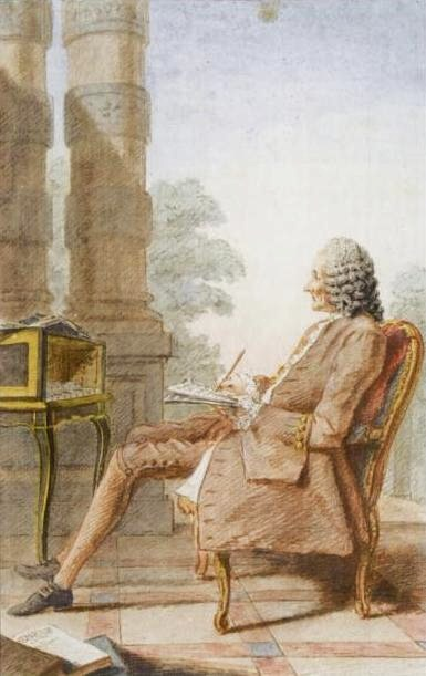 Depicted person: Jean-Philippe Rameau (1683–1764), French composer and music theorist of the Baroque era